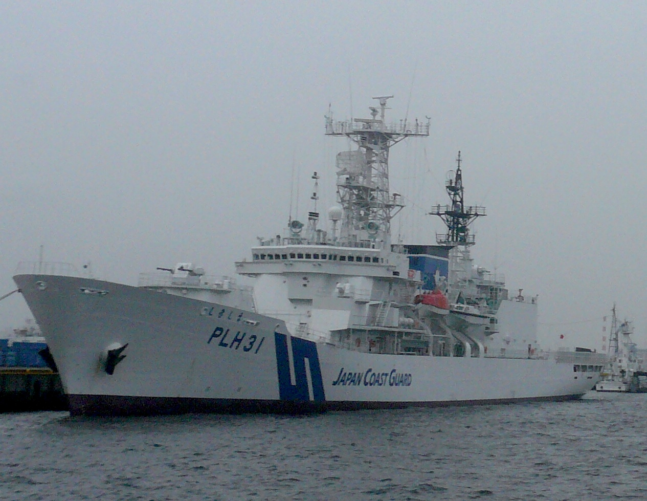 The Shikishima PLH-31 is a Shikishima class patrol boat of the Japan Coast Guard.